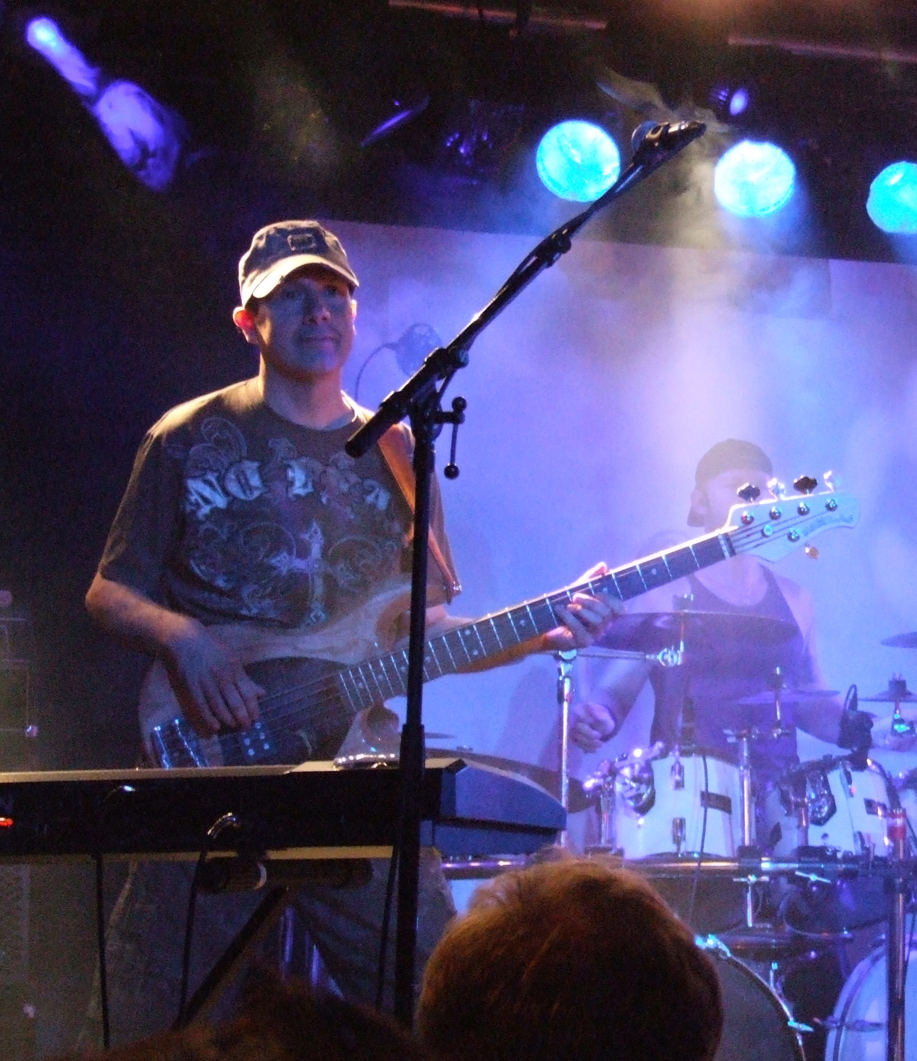 Peter Gee, bass guitar player of british Prog-Rockband Pendragon, Concert in Aschaffenburg, Music-Club "Colos-Saal" a former cinema